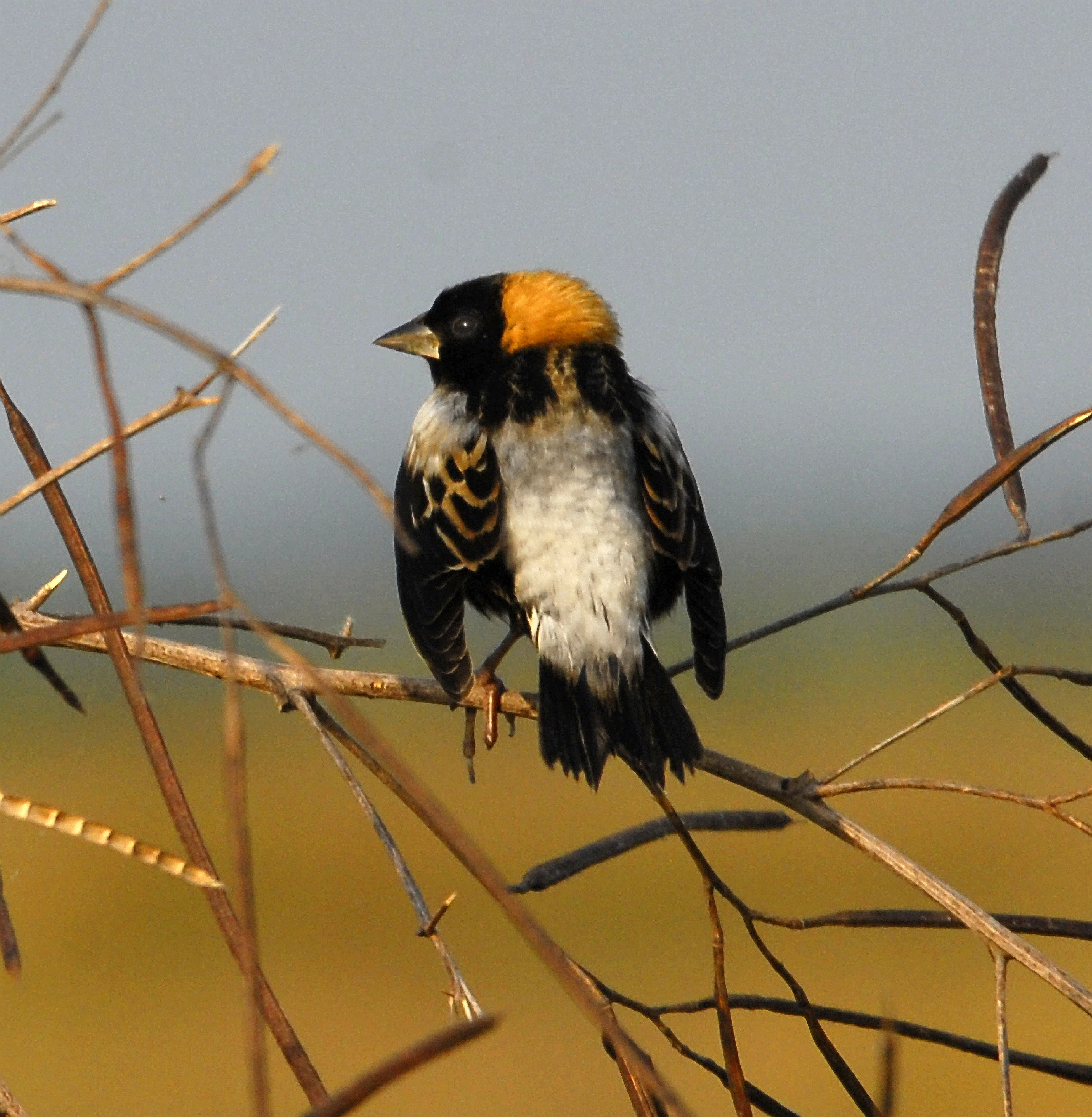 Bobolink at Lake Woodruff (Dolichonyx oryzivorus)